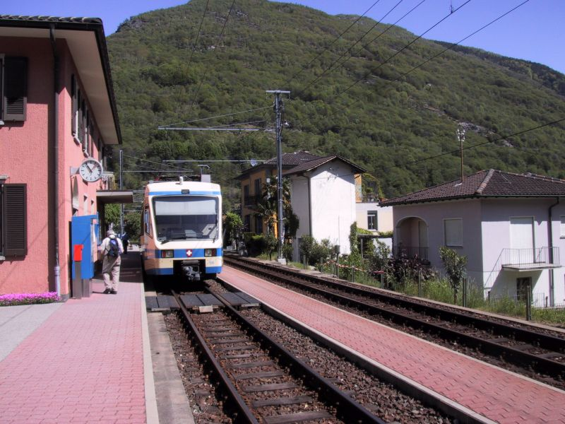 Intragna train station in Centovalli, Ticino, Switzerland